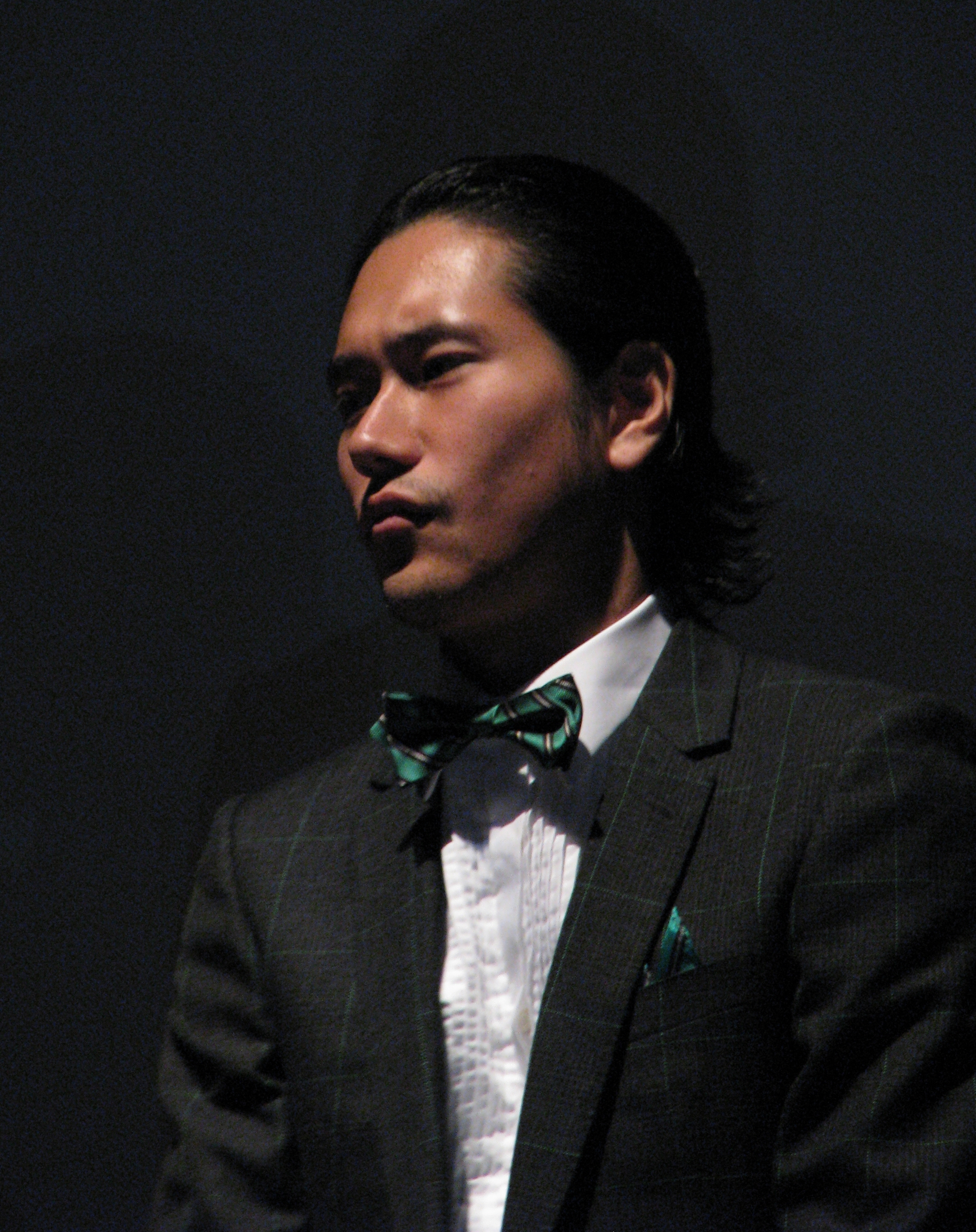 Matsuyama Kenichi, of "Death Note" fame, lead actor of "Detroit Metal City".